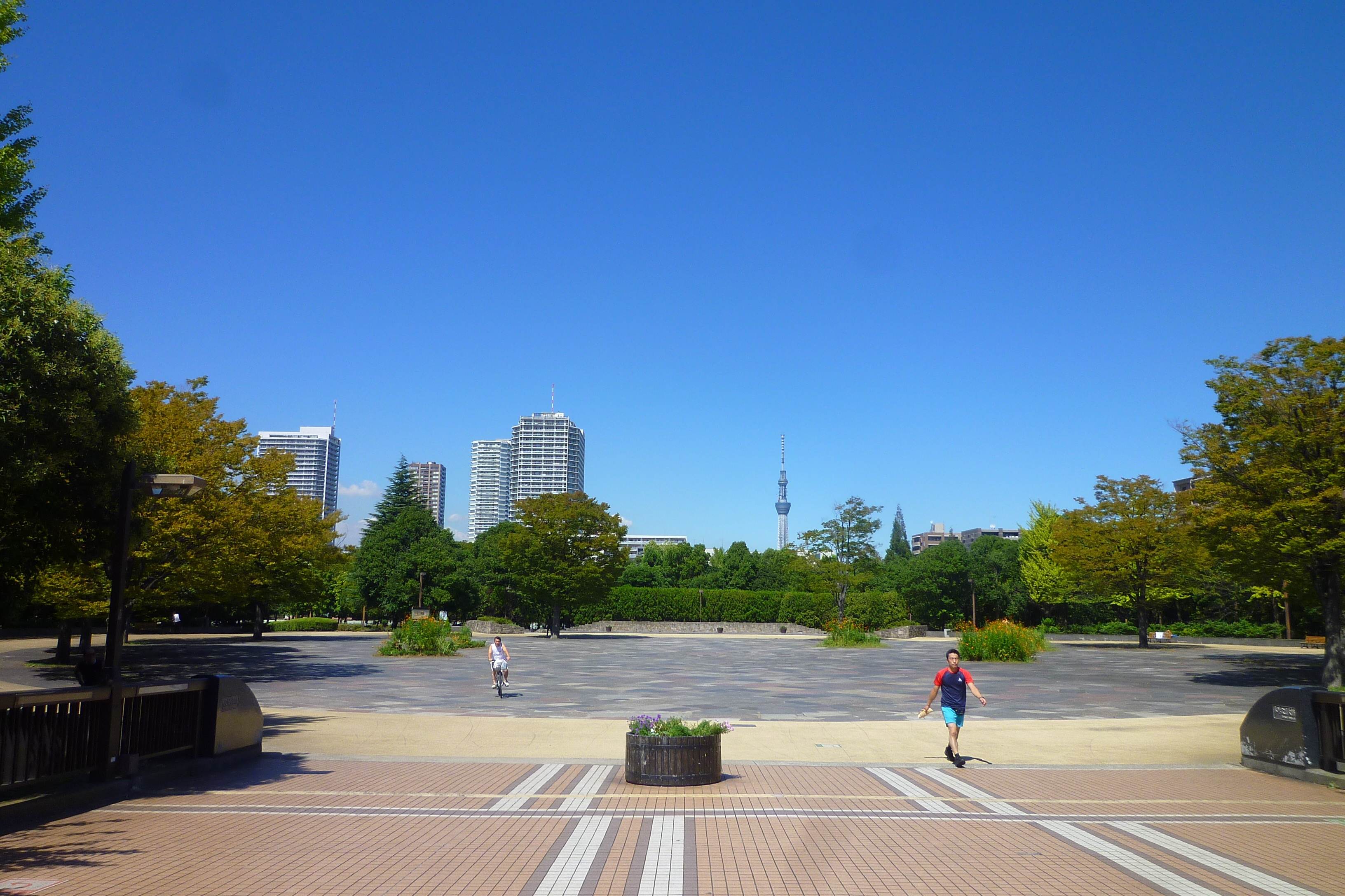 A view from inside Kiba Park in Tokyo, with Tokyo Skytree visible in the distance